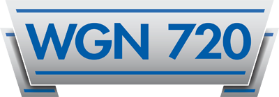 WGN (AM) 720 logo introduced in December 2013/January 2014